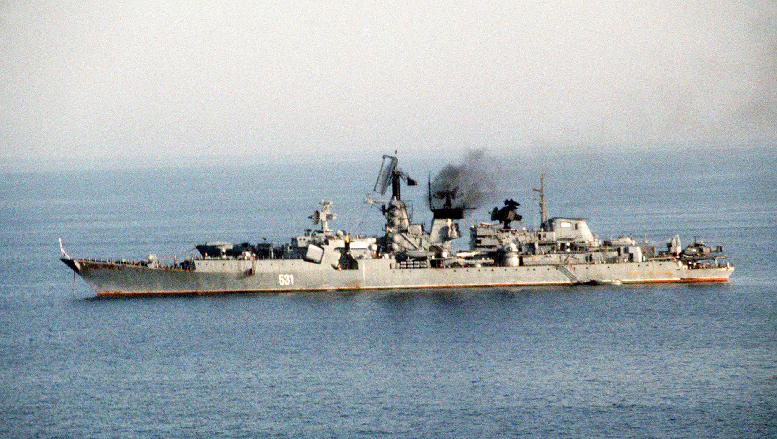 A port beam view of a Soviet Kresta II-class cruiser (Admiral Oktyabrsky) lying at anchor during Operation Desert Shield, in the Strait of Hormuz.